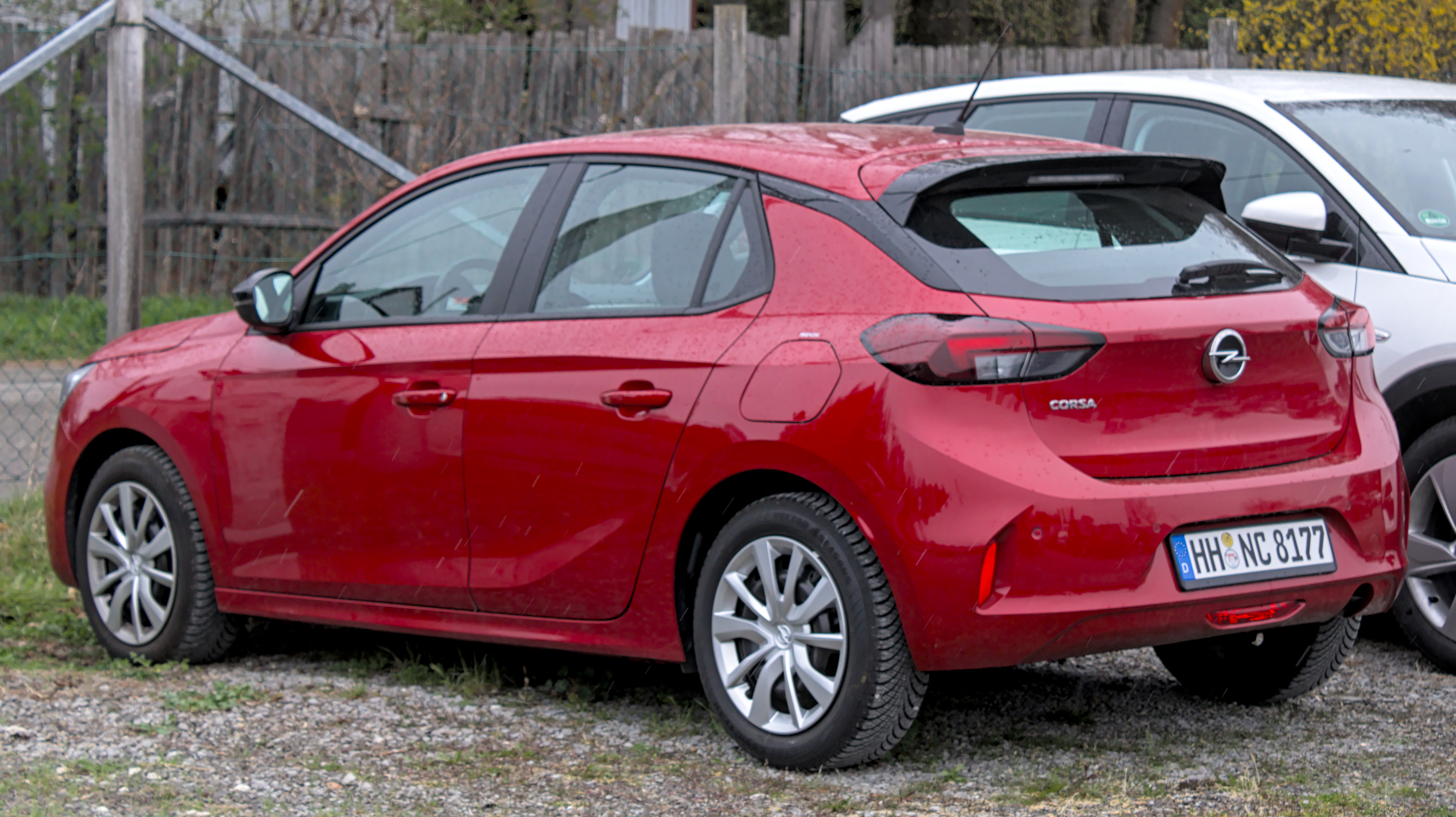 Opel_Corsa_F in Stuttgart-Vaihingen